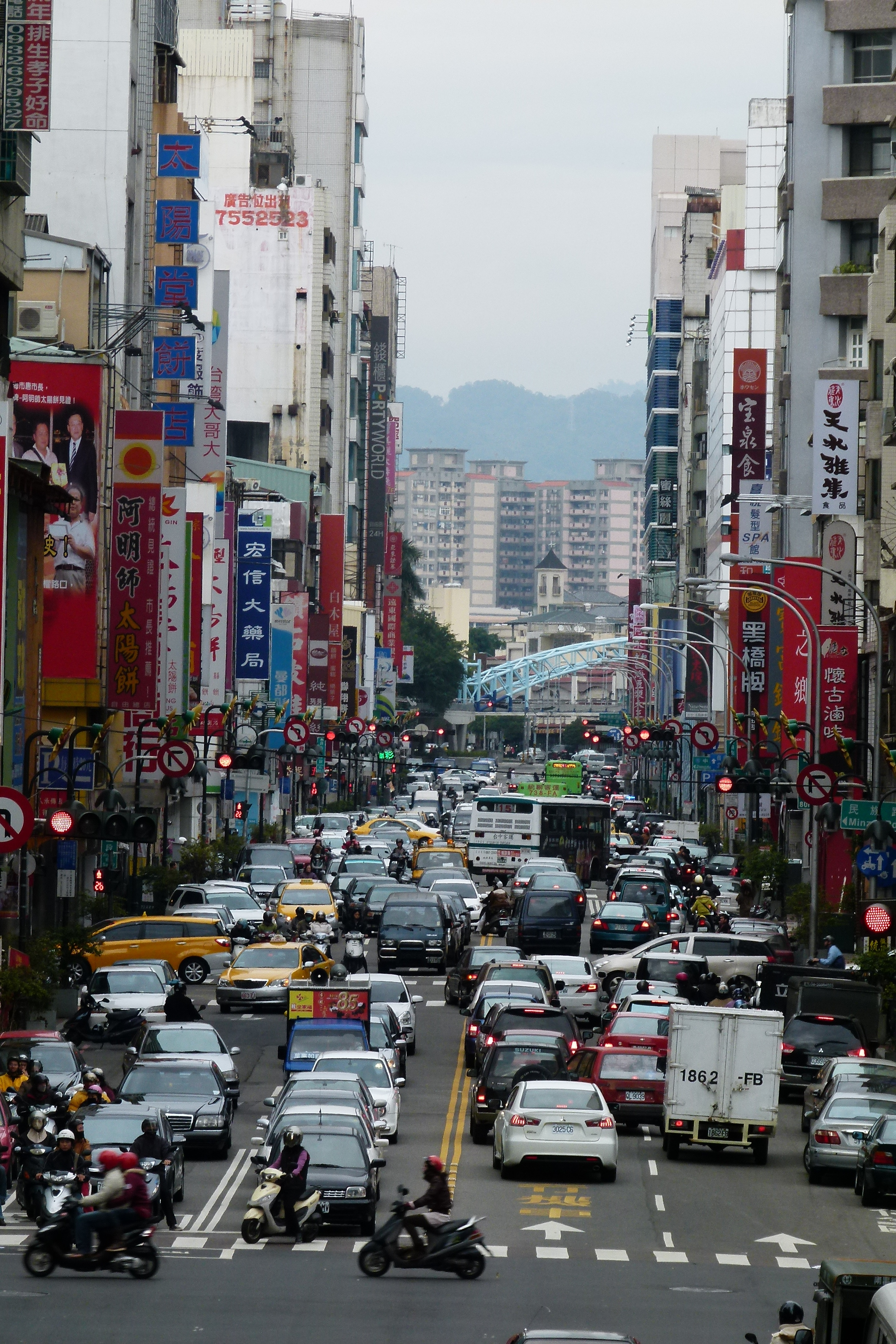 Intersection of Section 2, Ziyou Road and Minquan Road in Central District, Taichung City, looking northeast.